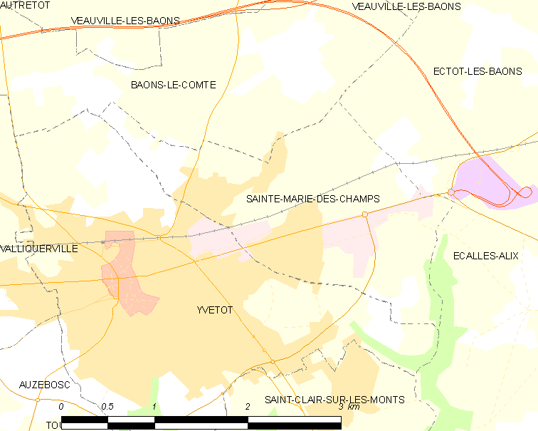 Map of French municipality Sainte-Marie-des-Champs